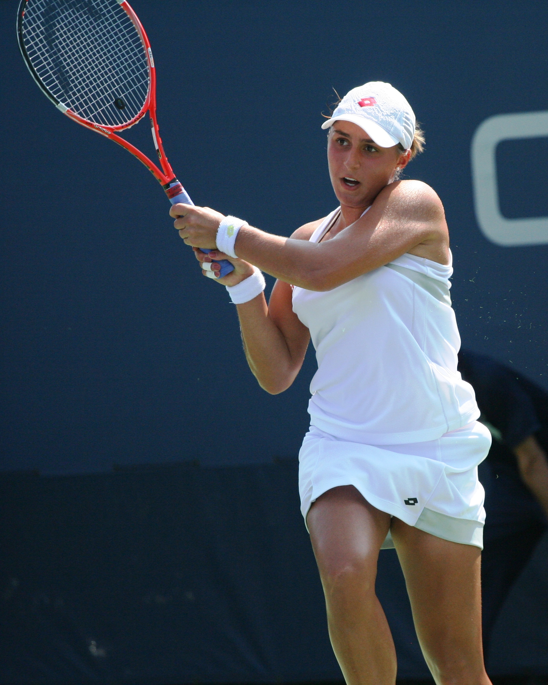 U.S. Open Thursday, Sept. 2, 2010